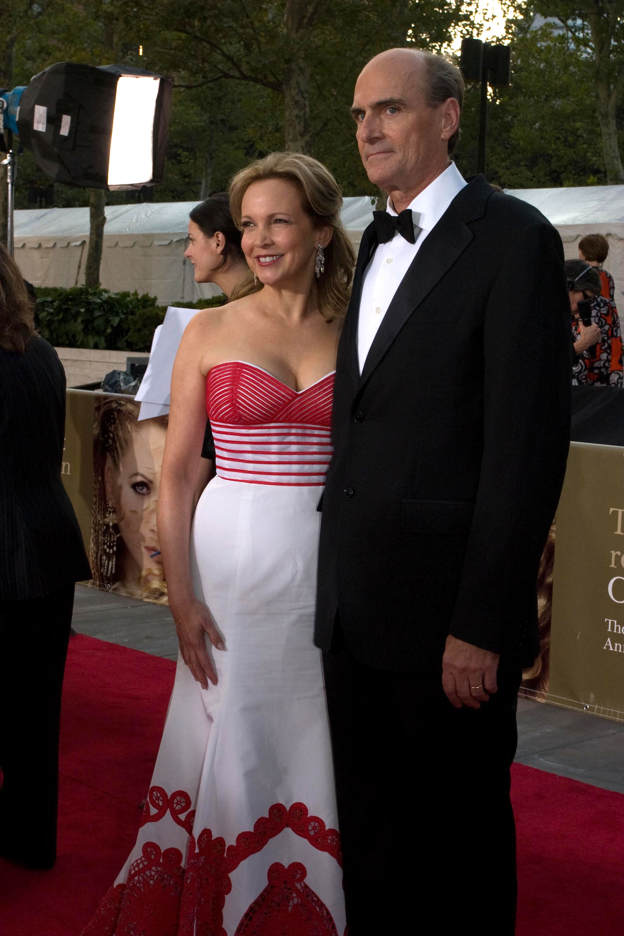 James Taylor and his wife Kim Smedvig at the Metropolitan Opera opening in 2008. © Rubenstein, photographer Martyna Borkowski